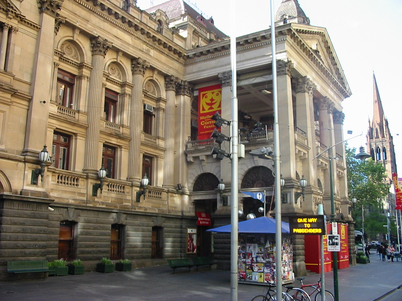 Melbourne Town Hall, taken in the morning during April, when the Melbourne International Comedy Festival is running and the Melbourne Town Hall acts as venue to a large number of the performances.